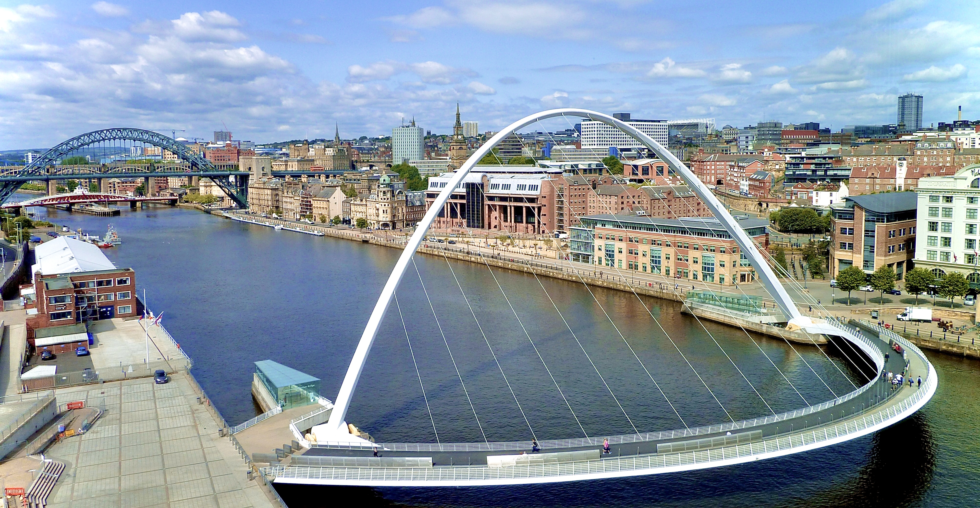 The Tyne bridges, including the Tyne Bridge and the Gateshead Millennium Bridge, with the skyline of Newcastle upon Tyne in the background, as seen from the Baltic Gallery, Gateshead.